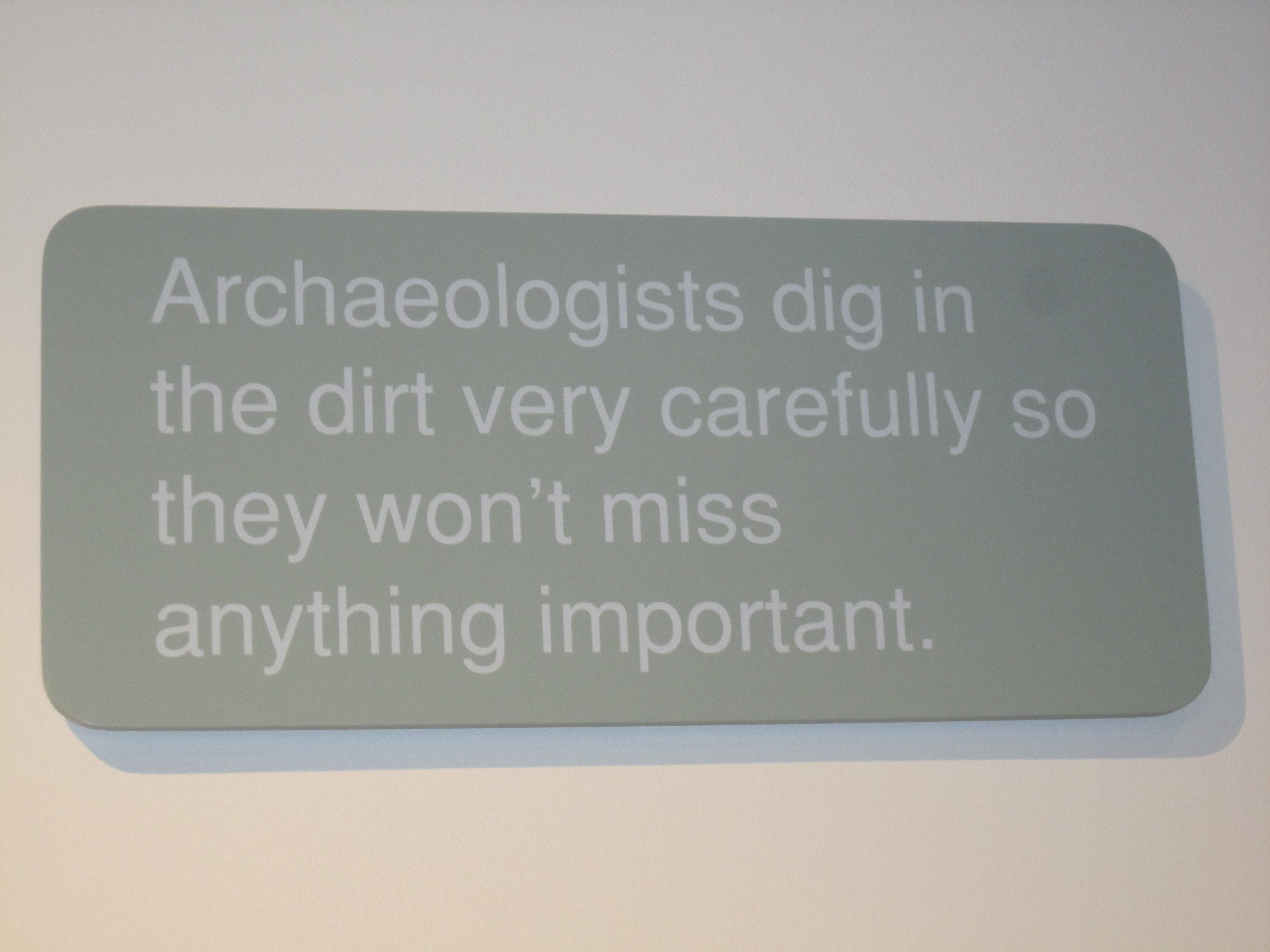 I took photo with Canon camera in Lubbock, TX.